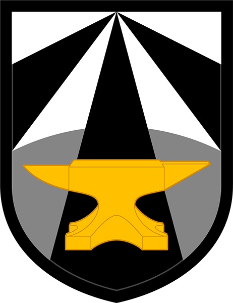 Army Futures Command Shoulder Sleeve Insignia